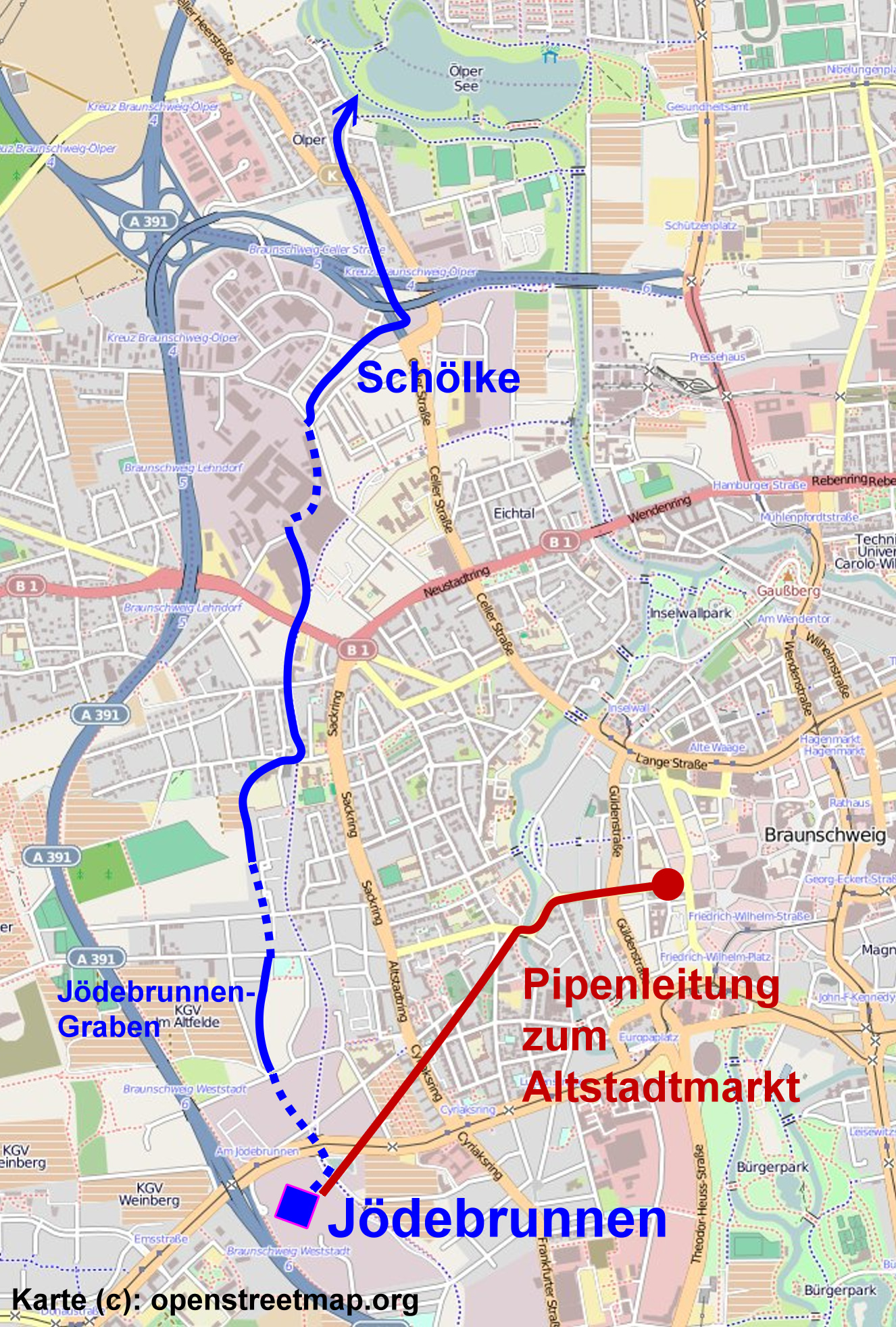 Situation of Jödebrunnen and brook Schölke in Brunswick